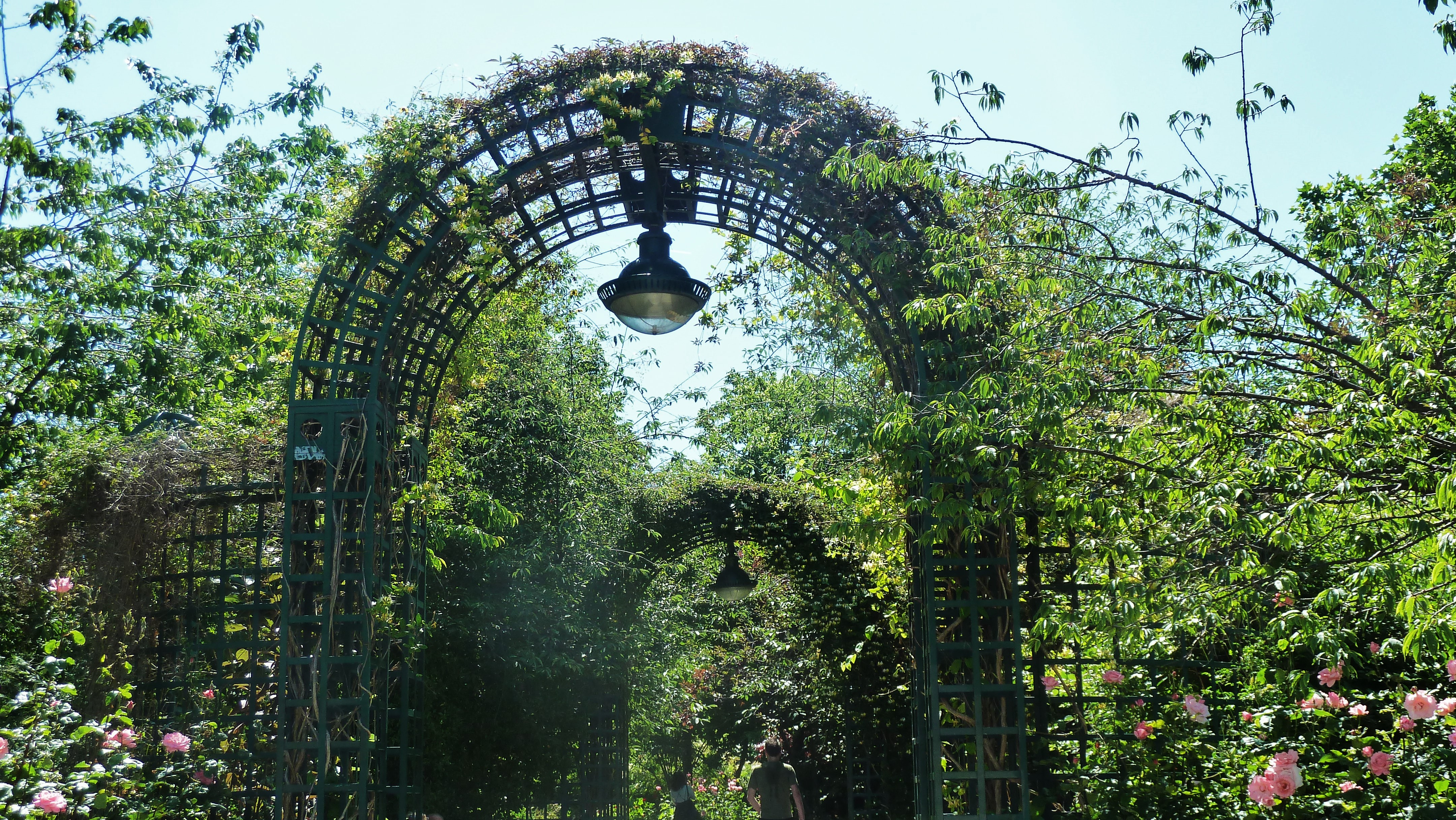 Coulée verte René-Dumont1 (Mai 2017)